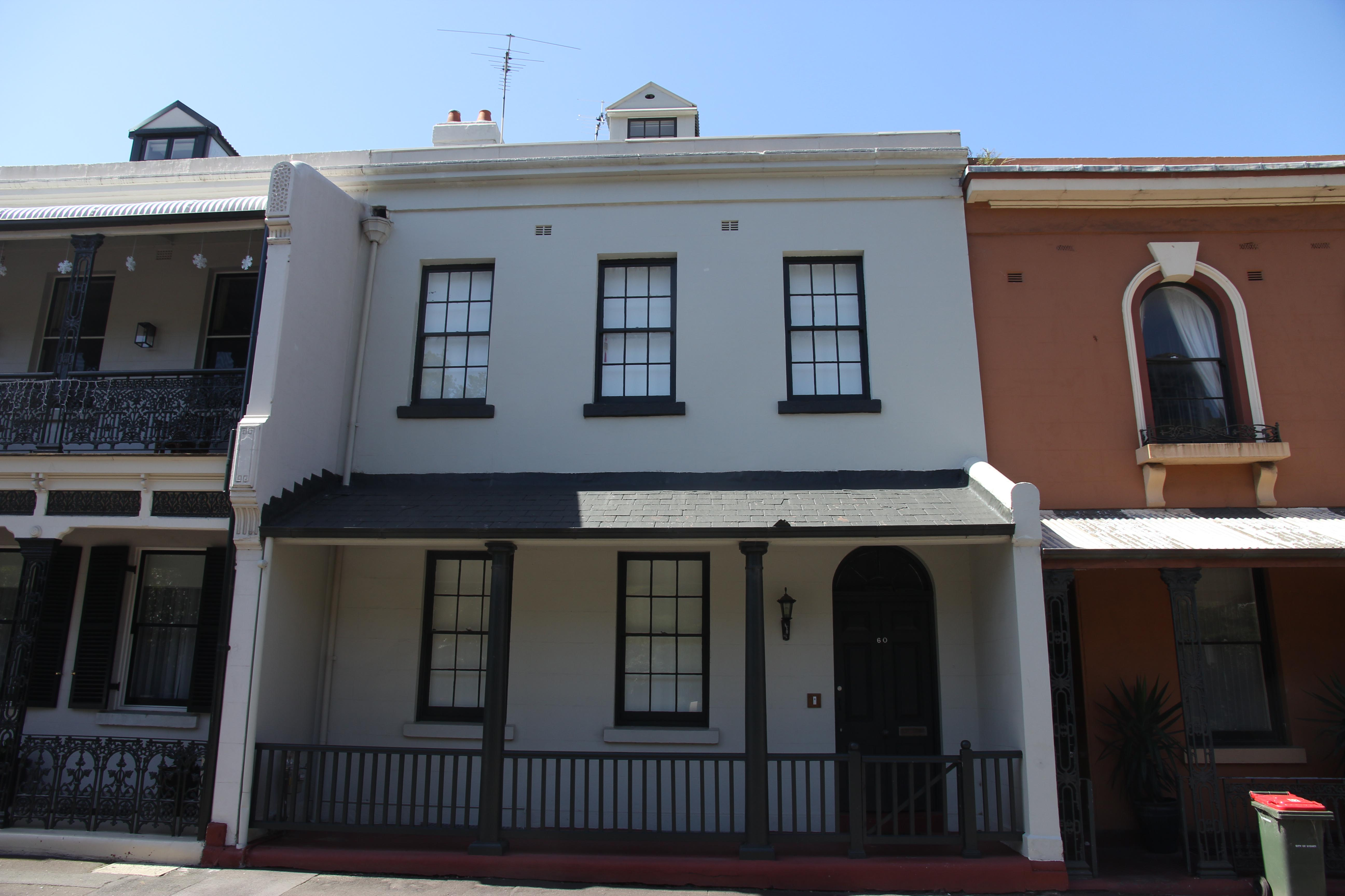 Part of Undercliffe Terrace, 60 Argyle Place, Millers Point, City of Sydney, New South Wales, Australia